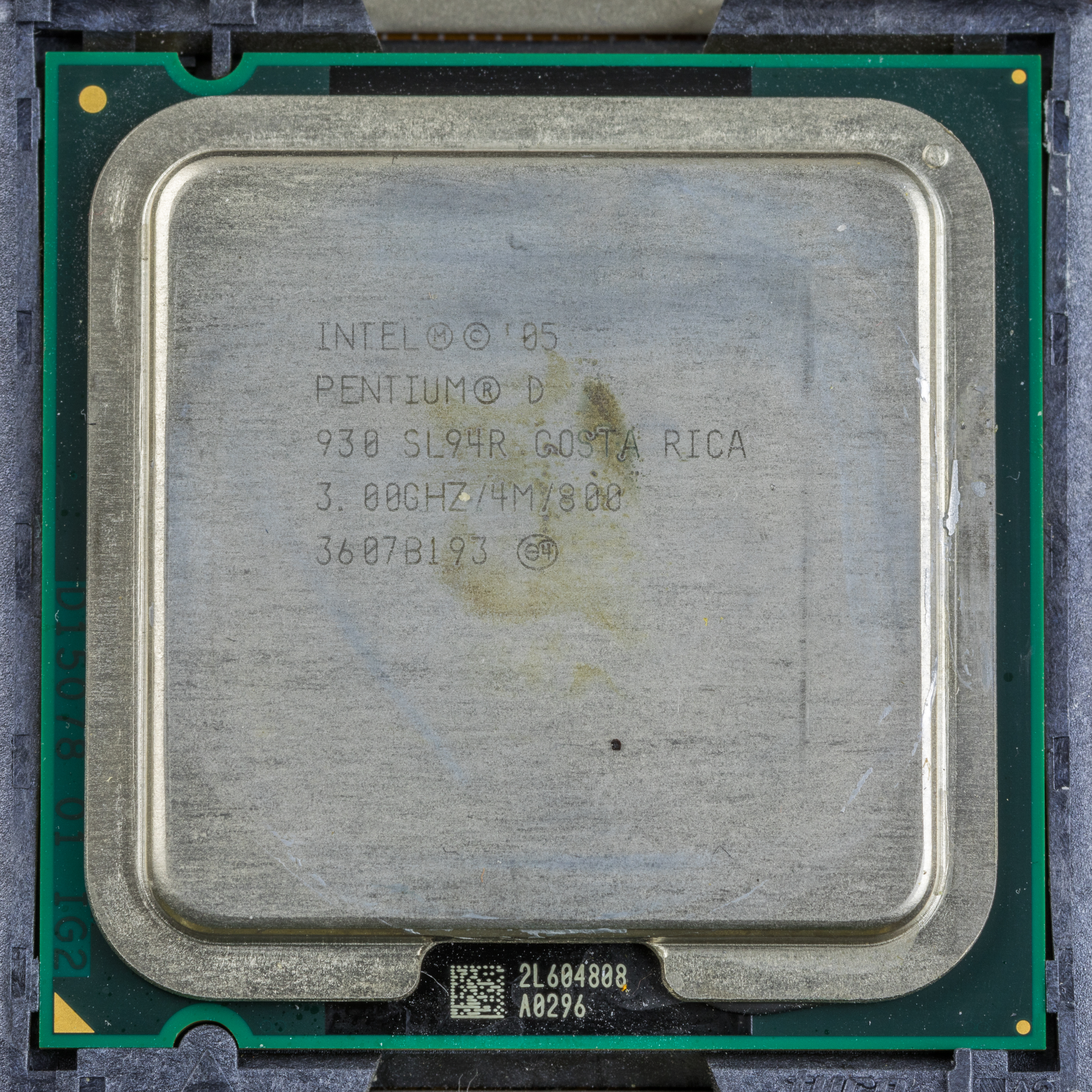 Asus P5PL2 - Intel D (SL94R)